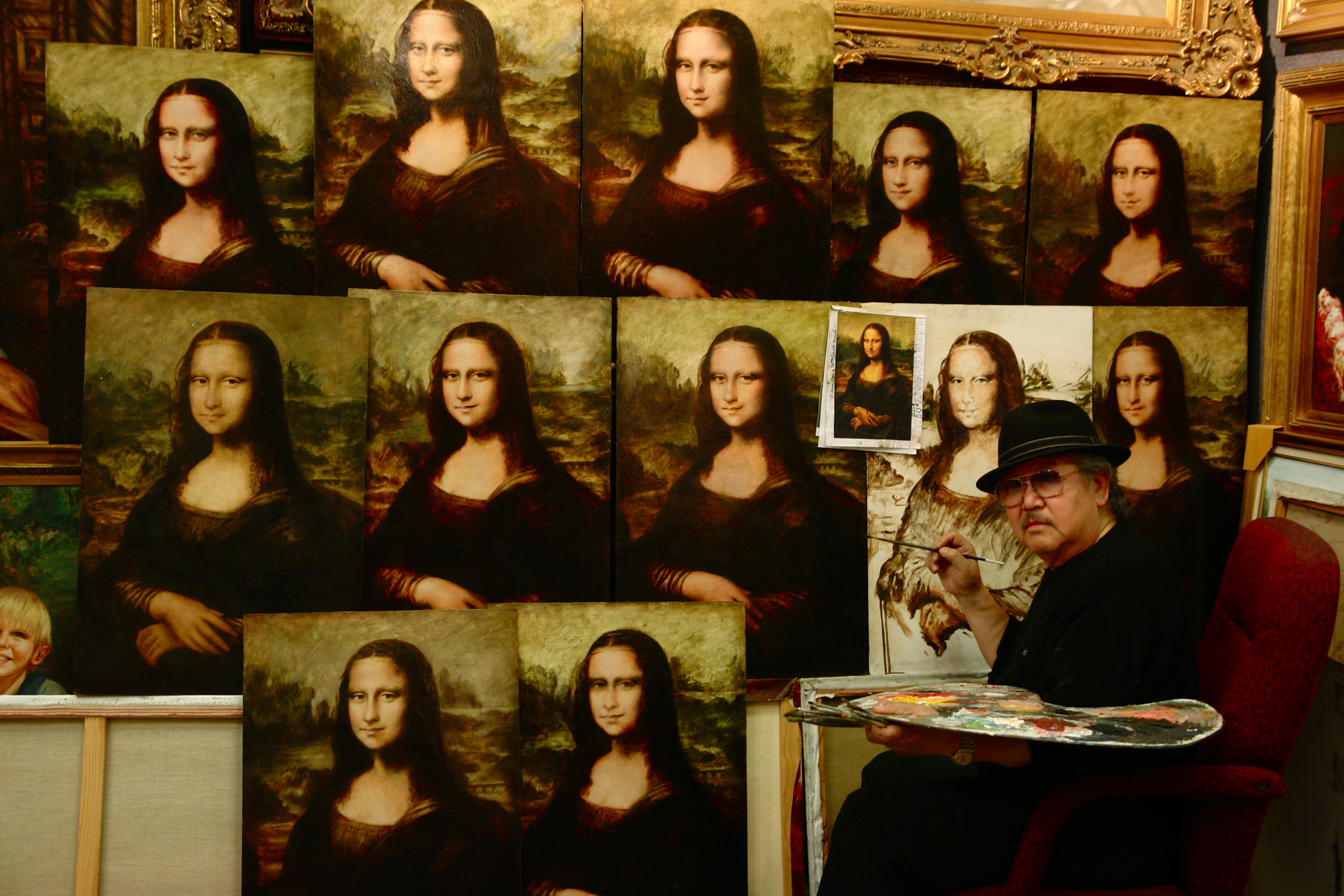 An artist painting the Mona Lisa surrounded by other copies.